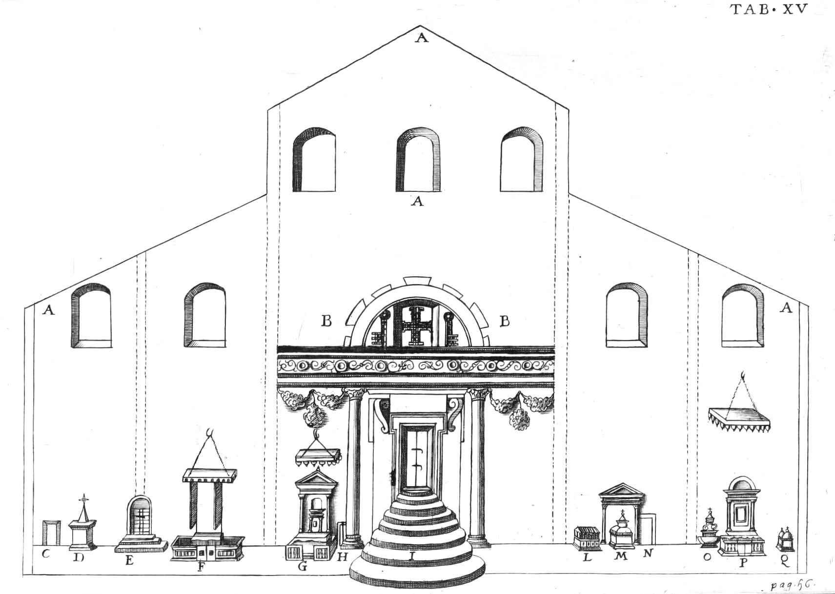 Engravings of (old) Saint Peter's Basilica in Rome.